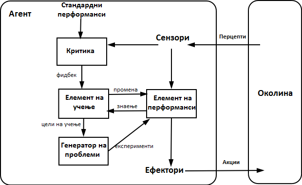 Intelligent agent